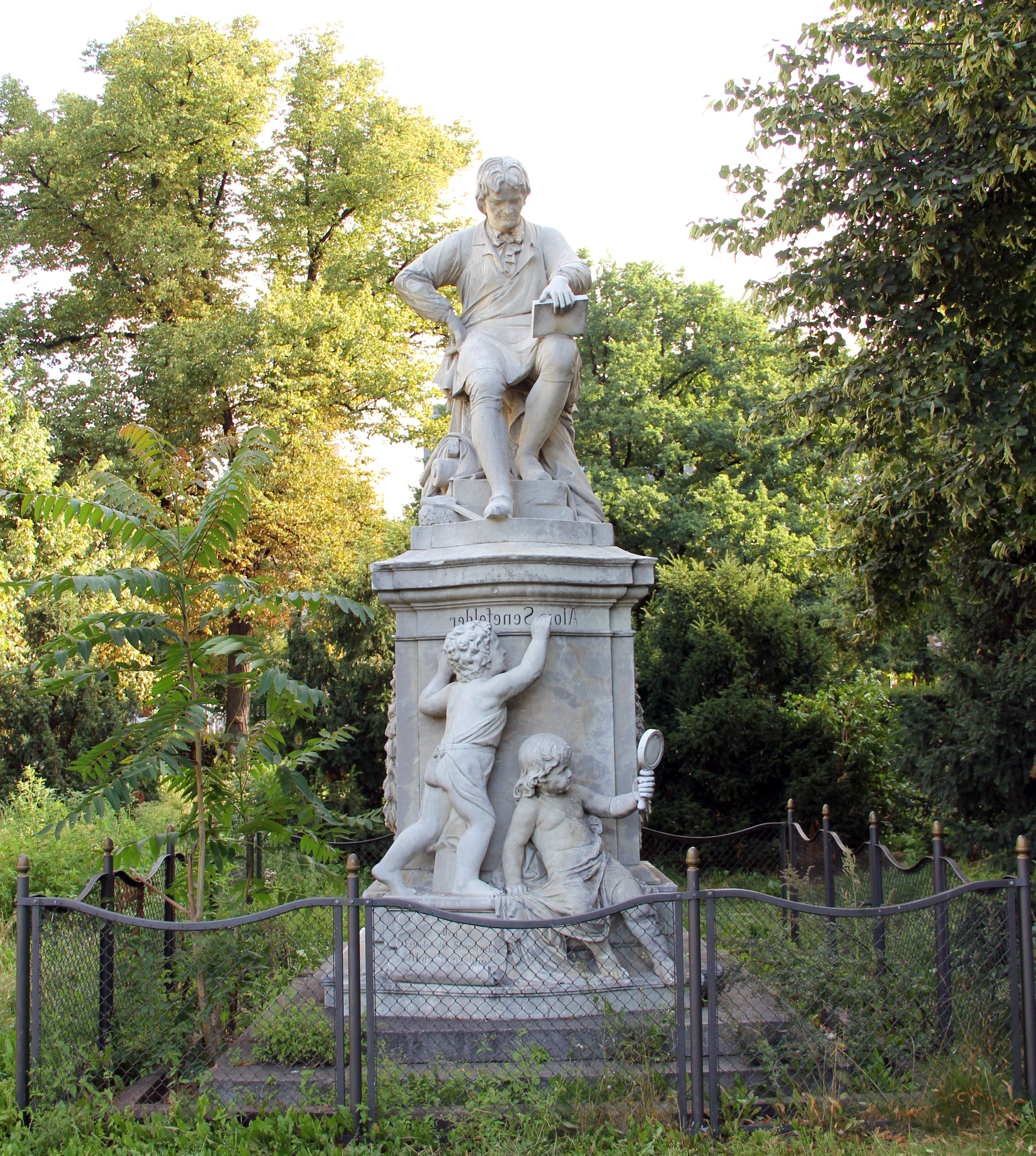 statue "Alois Senefelder" by Rudolf Pohle, 1892, Senefelderplatz, Berlin-Prenzlauer Berg, Germany.